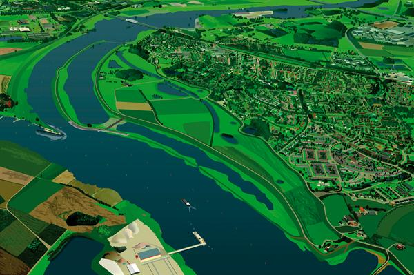 Artist's impression of the Hondsbroeksche Pleij area in The Netherlands after reconstruction finished in January 2012.